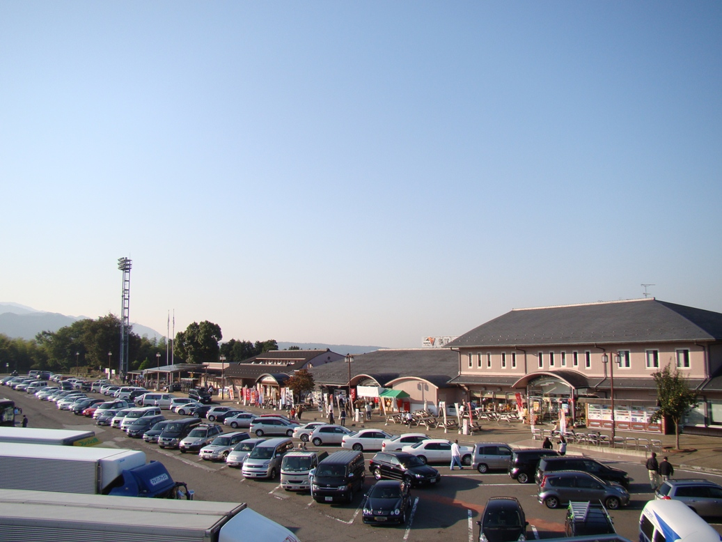 Taga service area Meishin expressway Shiga Japan